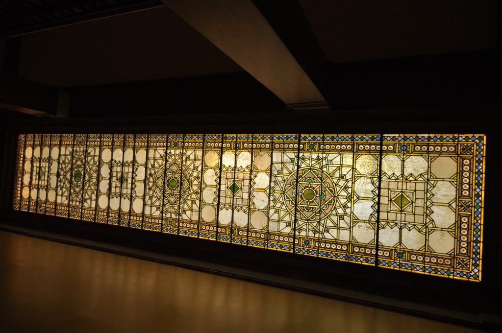 Tiffany-designed glass ceiling in the stairwell of the Frederick Ayer Mansion.